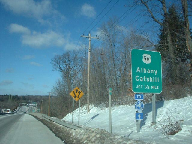 Approaching U.S. Route 9W on New York State Route 23 near Catskill. The interchange between the two routes is visible in the background.